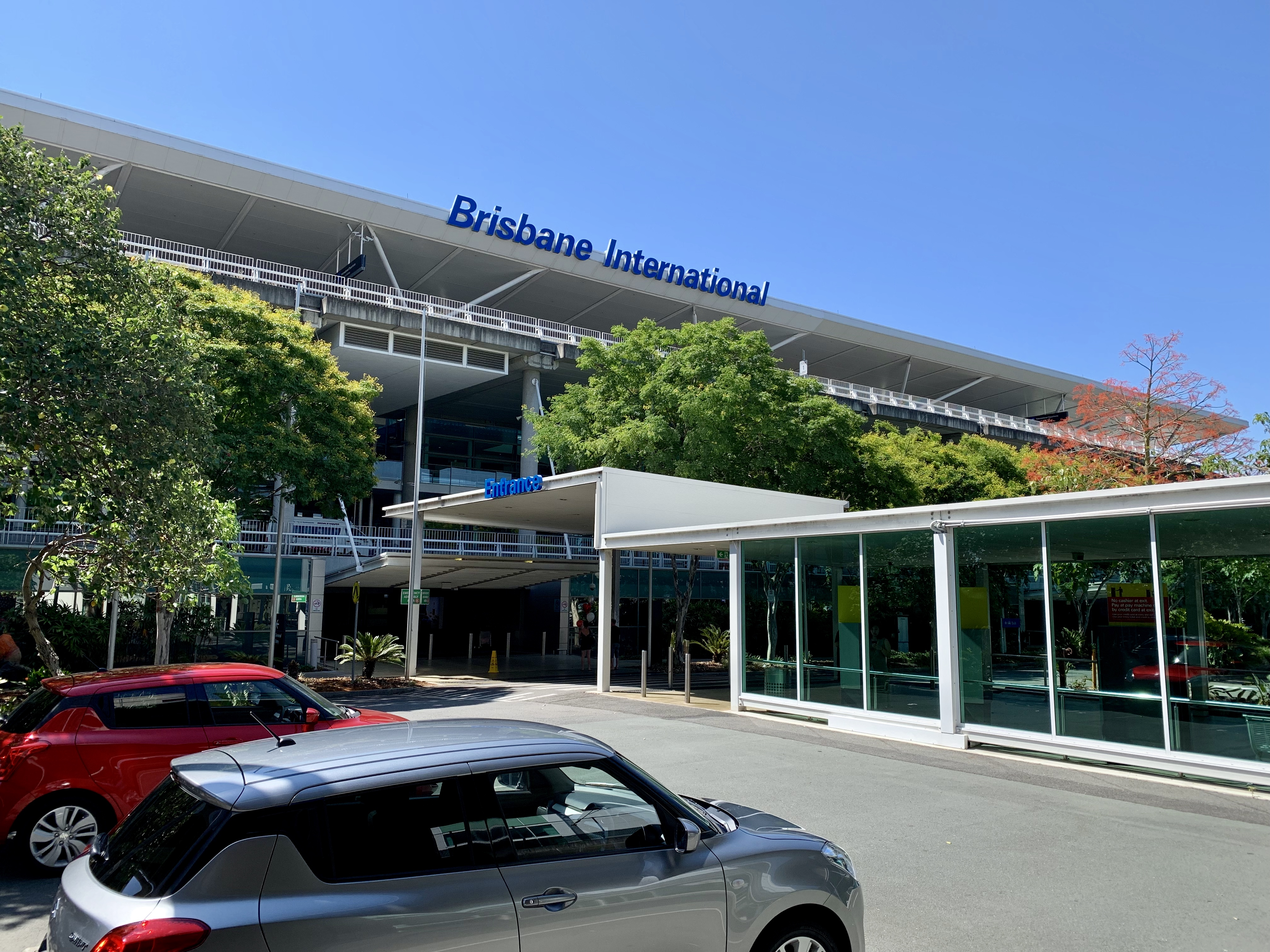 Brisbane International Terminal with access viaducts to the Arrivals and Departures levels in front of the building